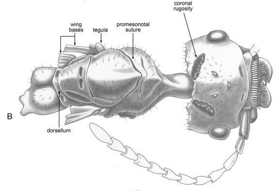 Drawings of holotype of Zigrasimecia tonsora, as preserved.(B) Head and mesosoma, dorsal view.